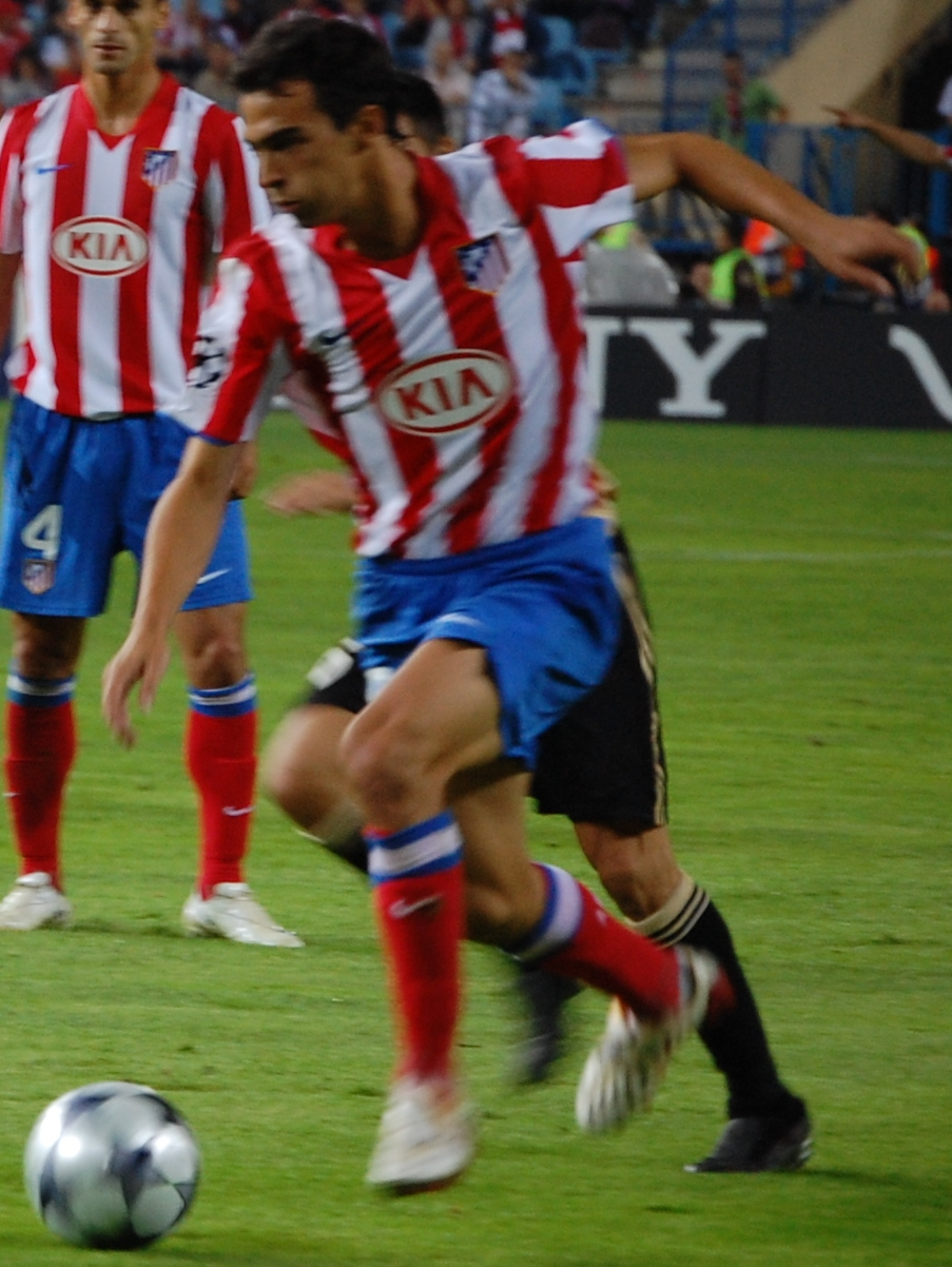 Miguel De las Cuevas with the ball in a Champions match Atletico de Madrid vs. Olympique de Marsella.